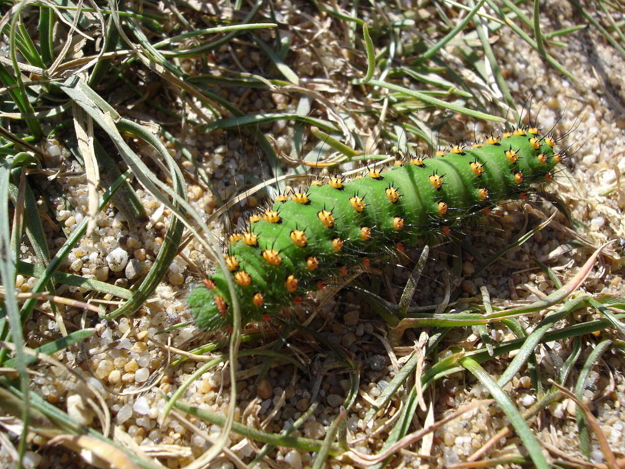 Green caterpillar with orange dots